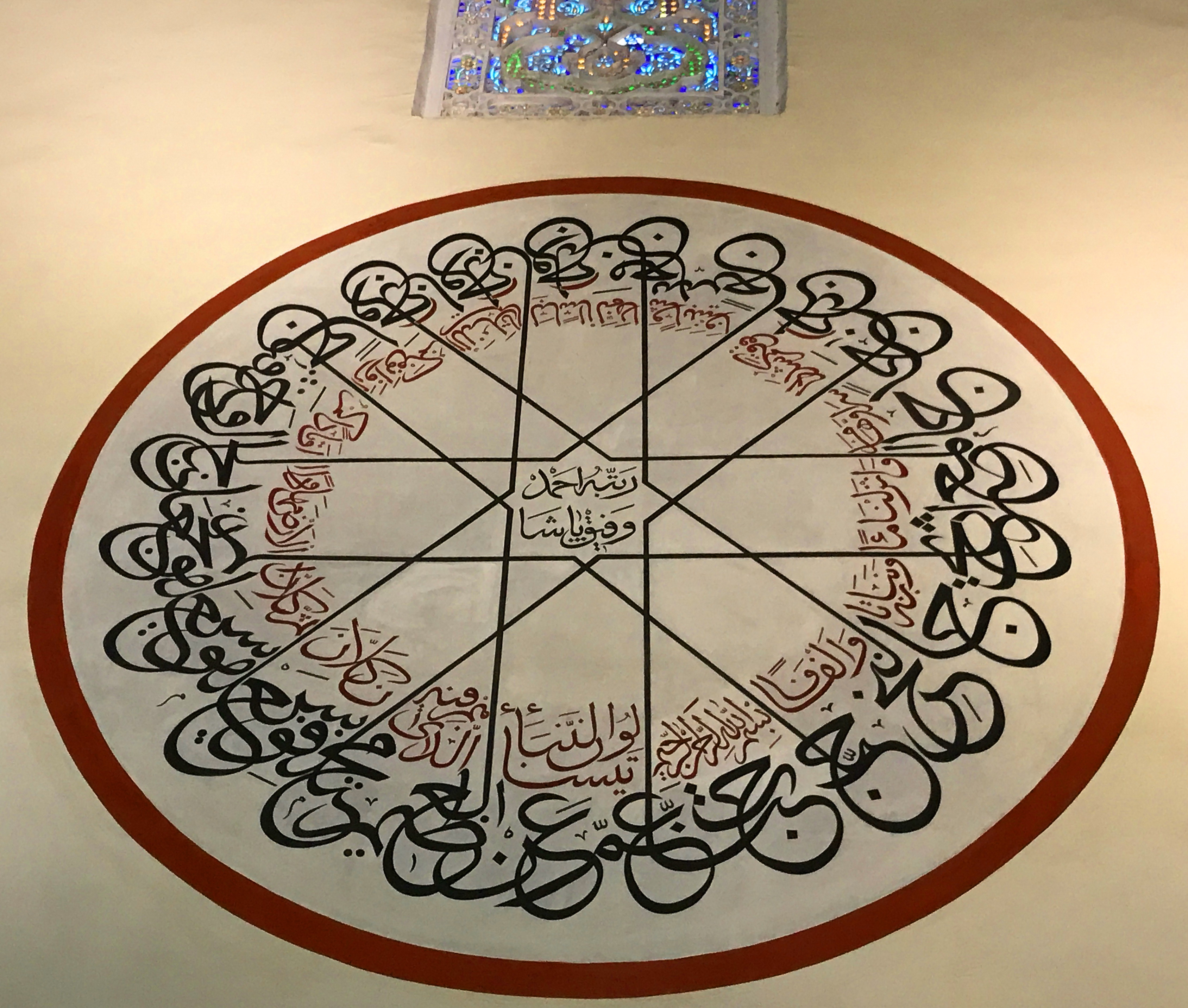 Green Mosque of Bursa, Turkey, 2017. Green Mosque (Turkish: Yeşil Camii, "Yeşil Mosque"), also known as Mosque of Sultan Mehmed I, is a part of the larger complex (a külliye) located on the east side of Bursa, Turkey, the former capital of the Ottoman Turks before they captured Constantinople in 1453. The complex consists of a mosque, türbe, madrasah, kitchen and bath.